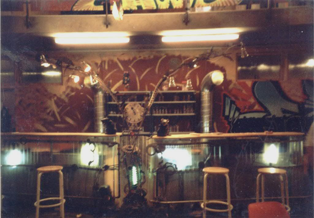 Stage of the German teen tv series "Fabrixx"